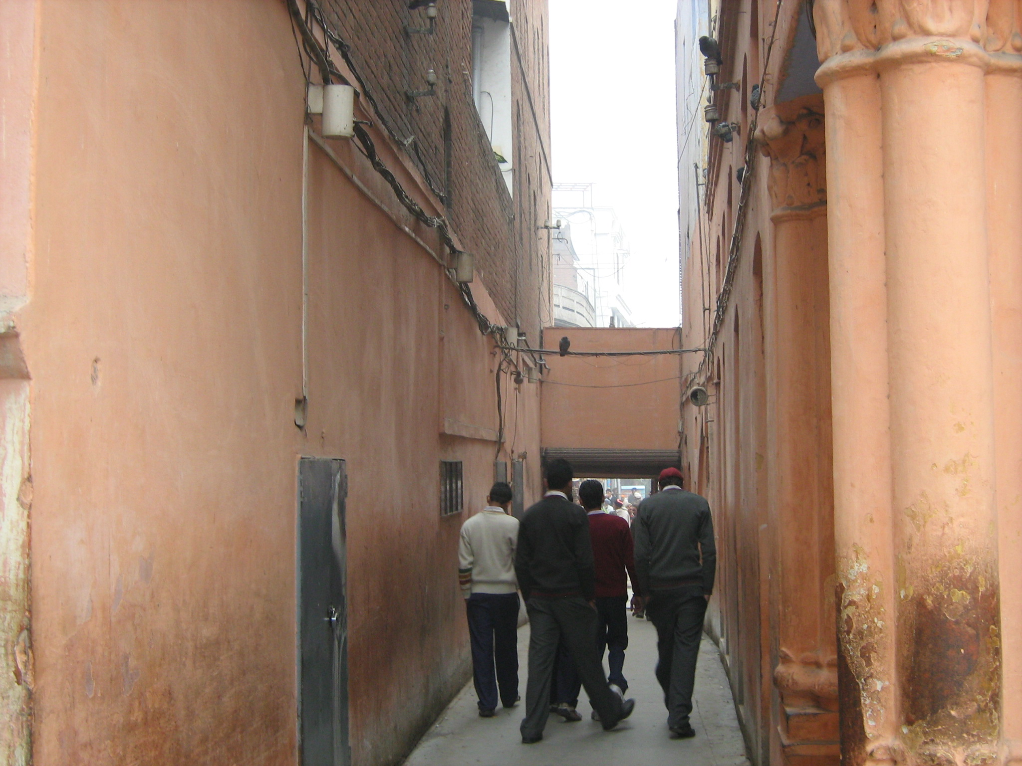 Narrow passage from Jalianwala Bagh Garden through which people entered the park on the massacre of 13th April 1919